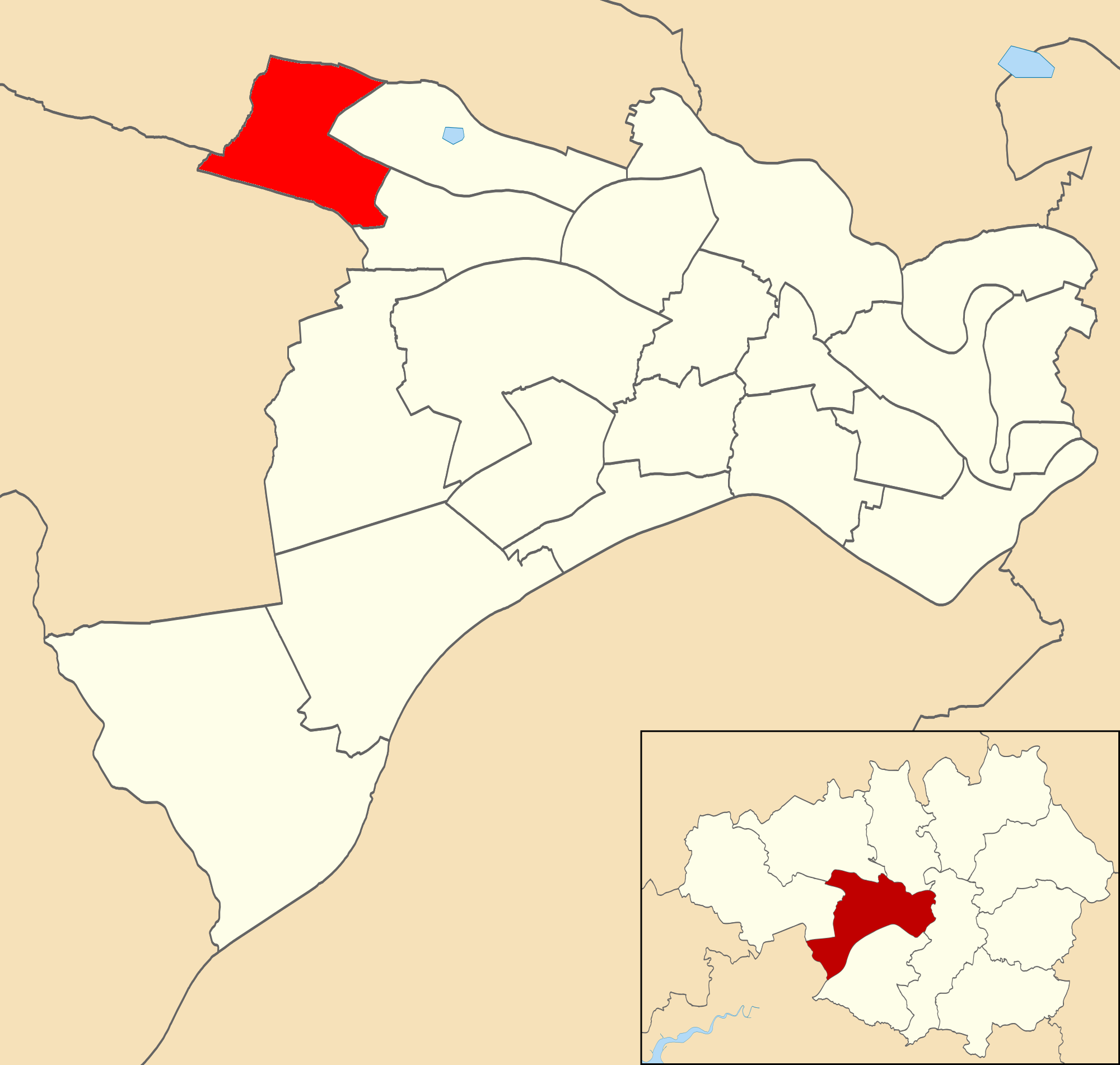 Map showing location of Little Hulton ward within Salford City Council.